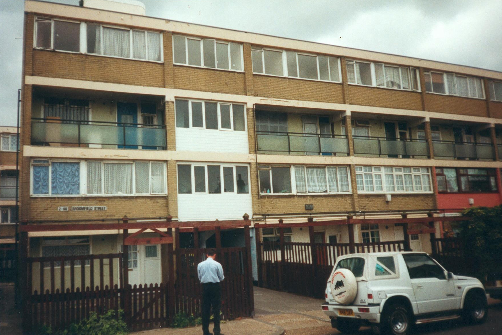 Broomfield St, Poplar, London E14 before regeneration